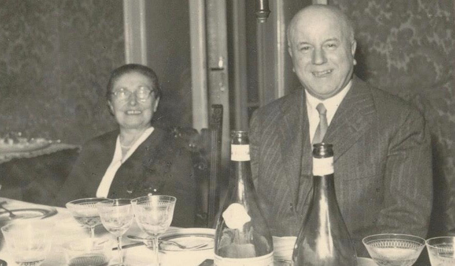 Attilio and Elena Prevost, founders of the Company Officine Prevost, in Milan in 1951